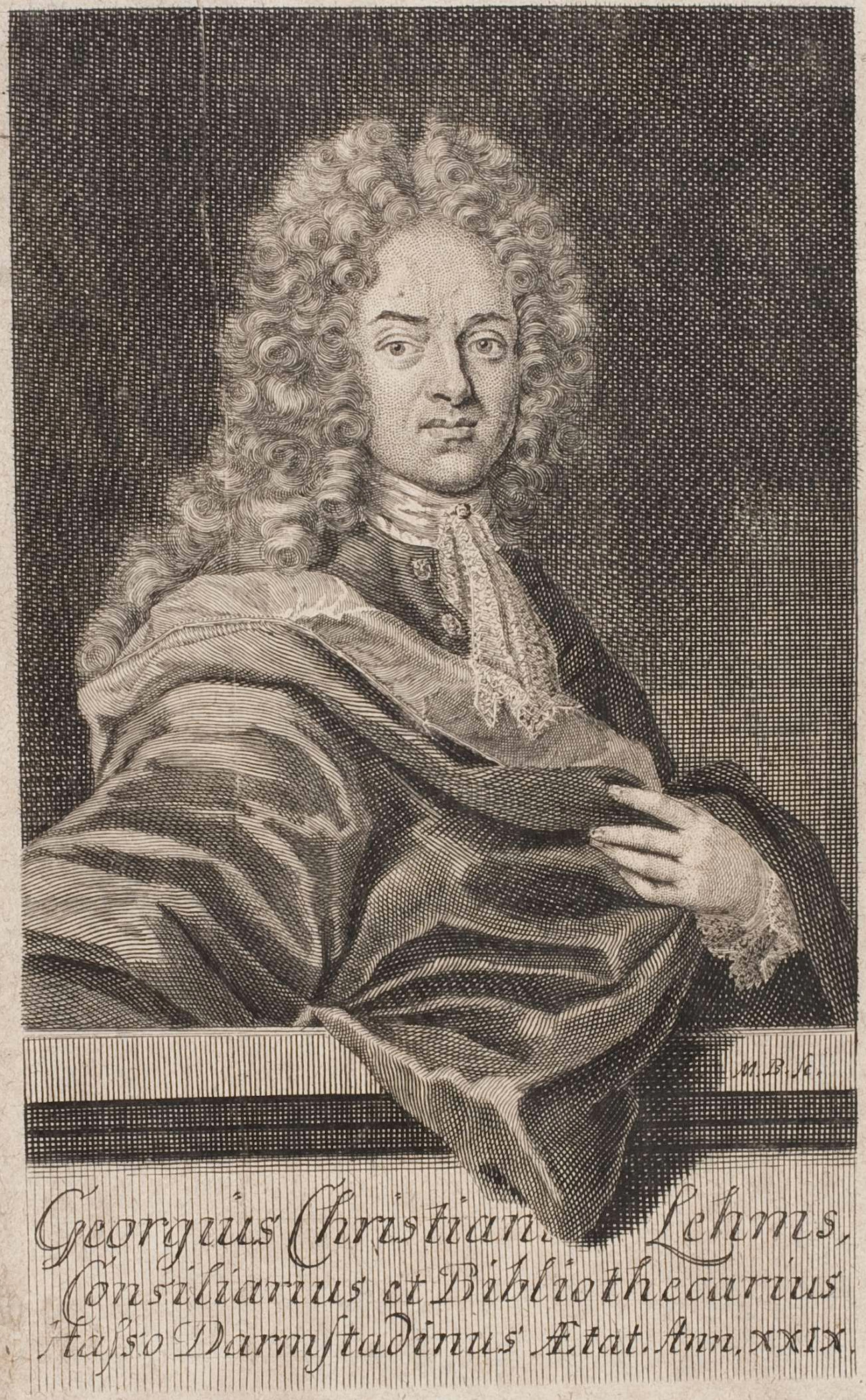 Depicted person: Georg Christian Lehms